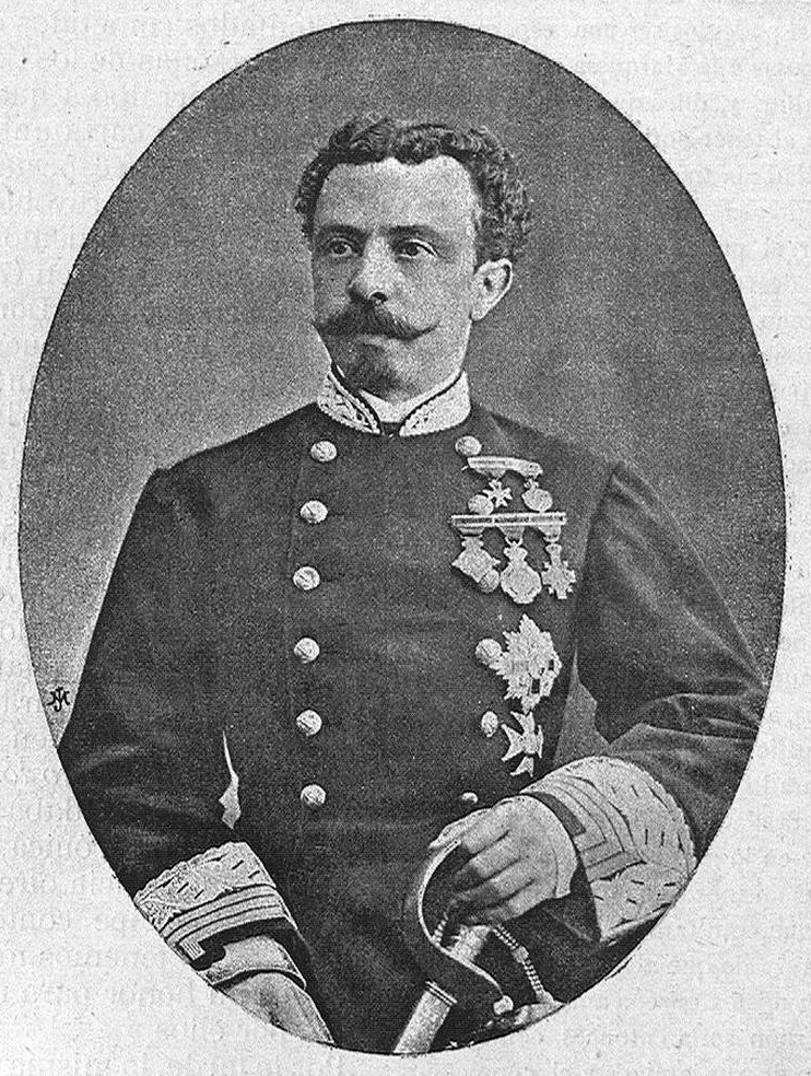 Barón de Sangarrén